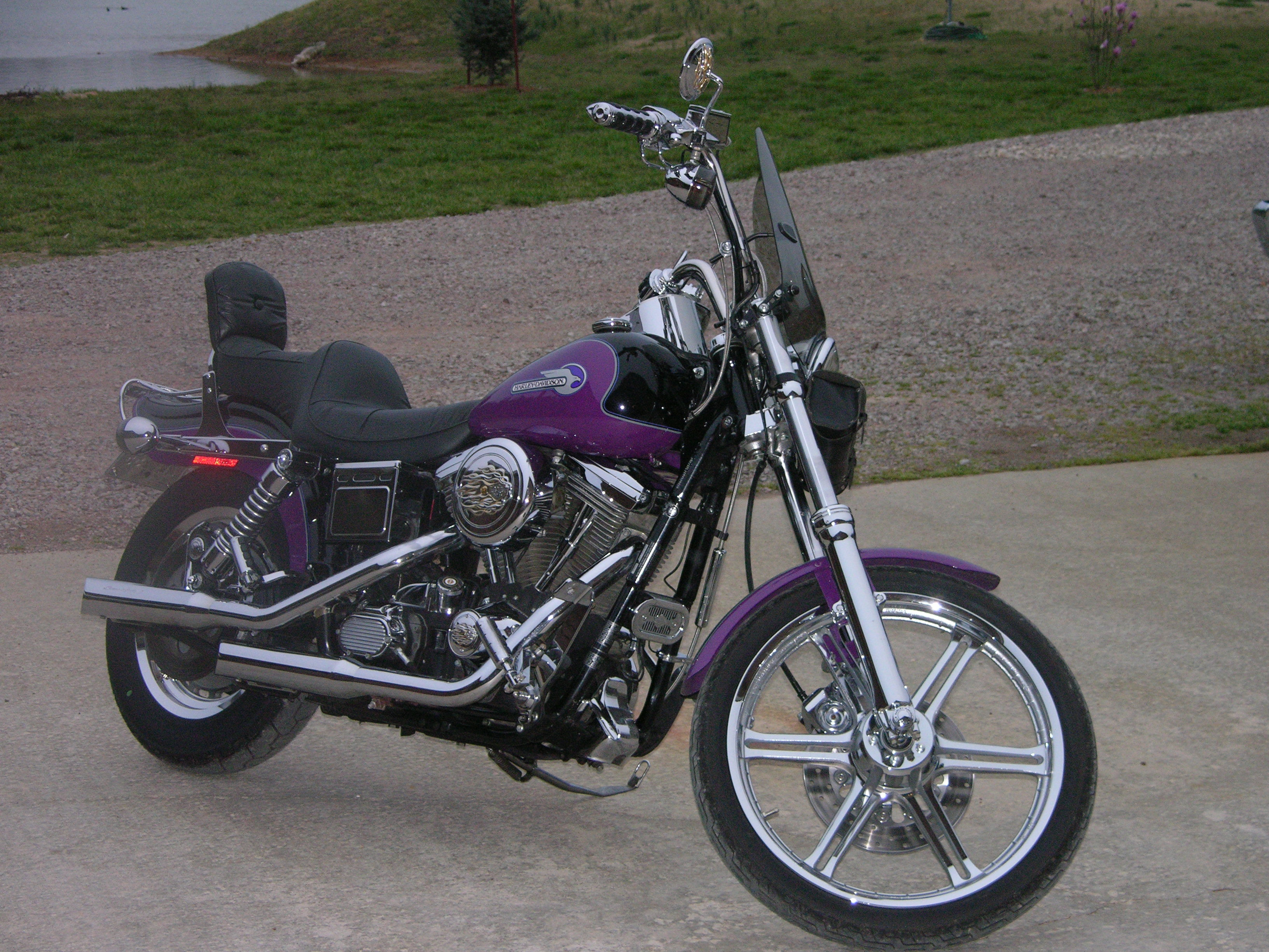 Right side view of a Harley-Davidson FXDWG Dyna Wide Glide